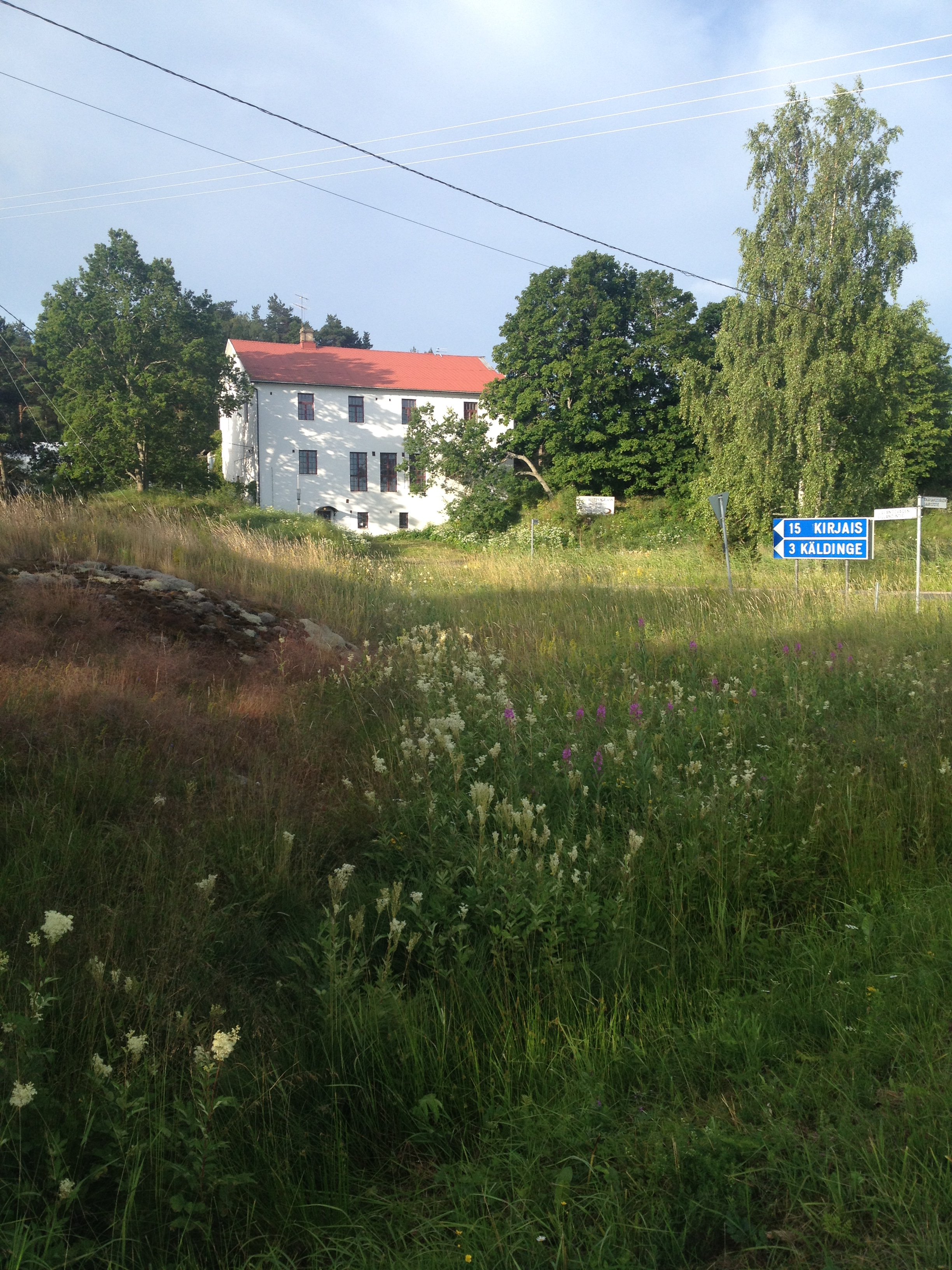 A picture of the old dairy building in the village of Hangslax in Nagu, Finland. The building has also been hosting a glass workshop, but is now a private home.